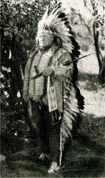 Cante Tanke "Great Heart", The Wigwam, Du Bois, PA, c.1950. Other information No.